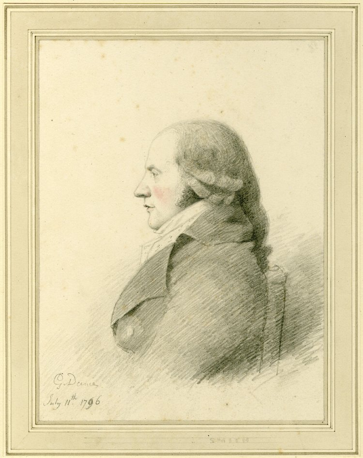 Portrait of Benjamin Smith, engraver; head and shoulders, seated, in profile to left. 1796 Graphite, with watercolour, Drawn by George Dance